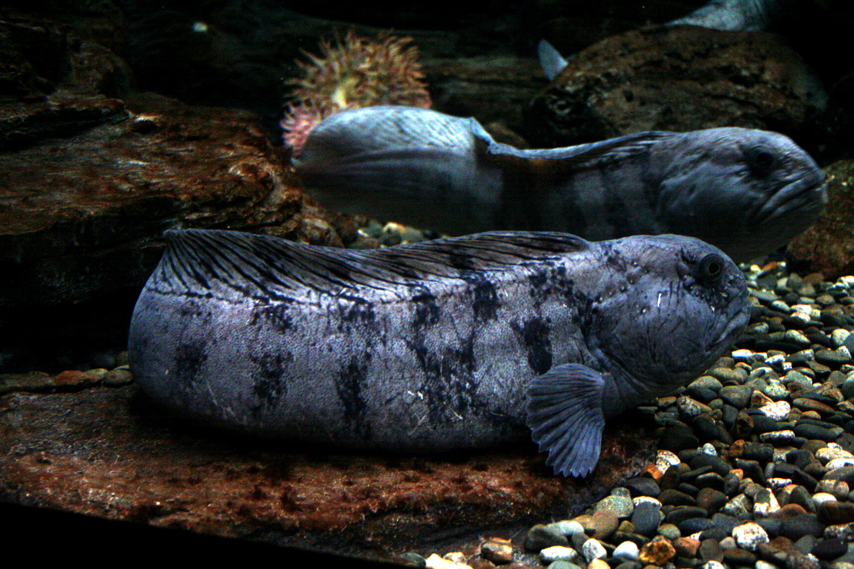 Anarhichas lupus (Wolf-fish) at Océanopolis, Brest, France